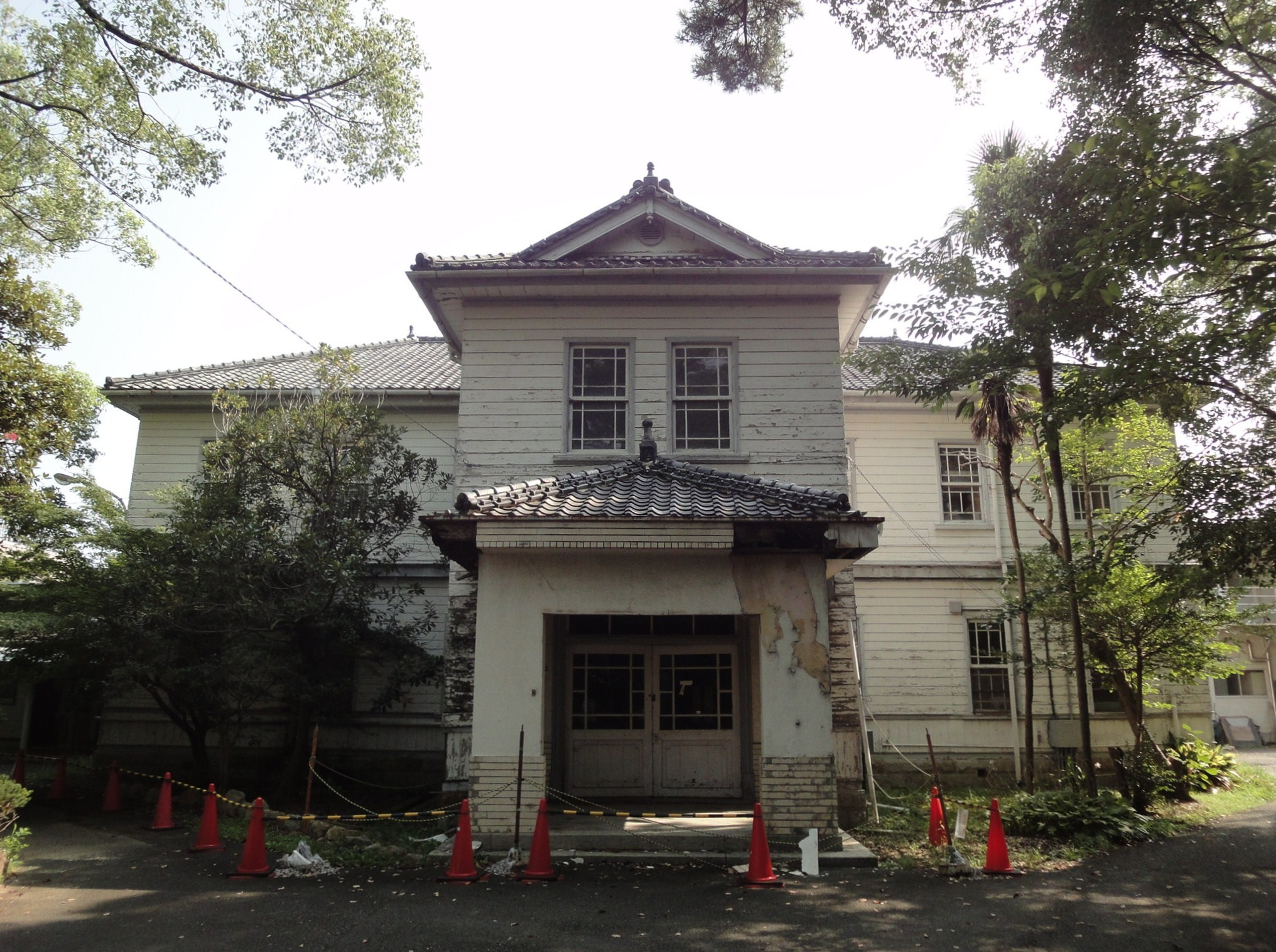 Former the main building of Aichi University Juniour College.